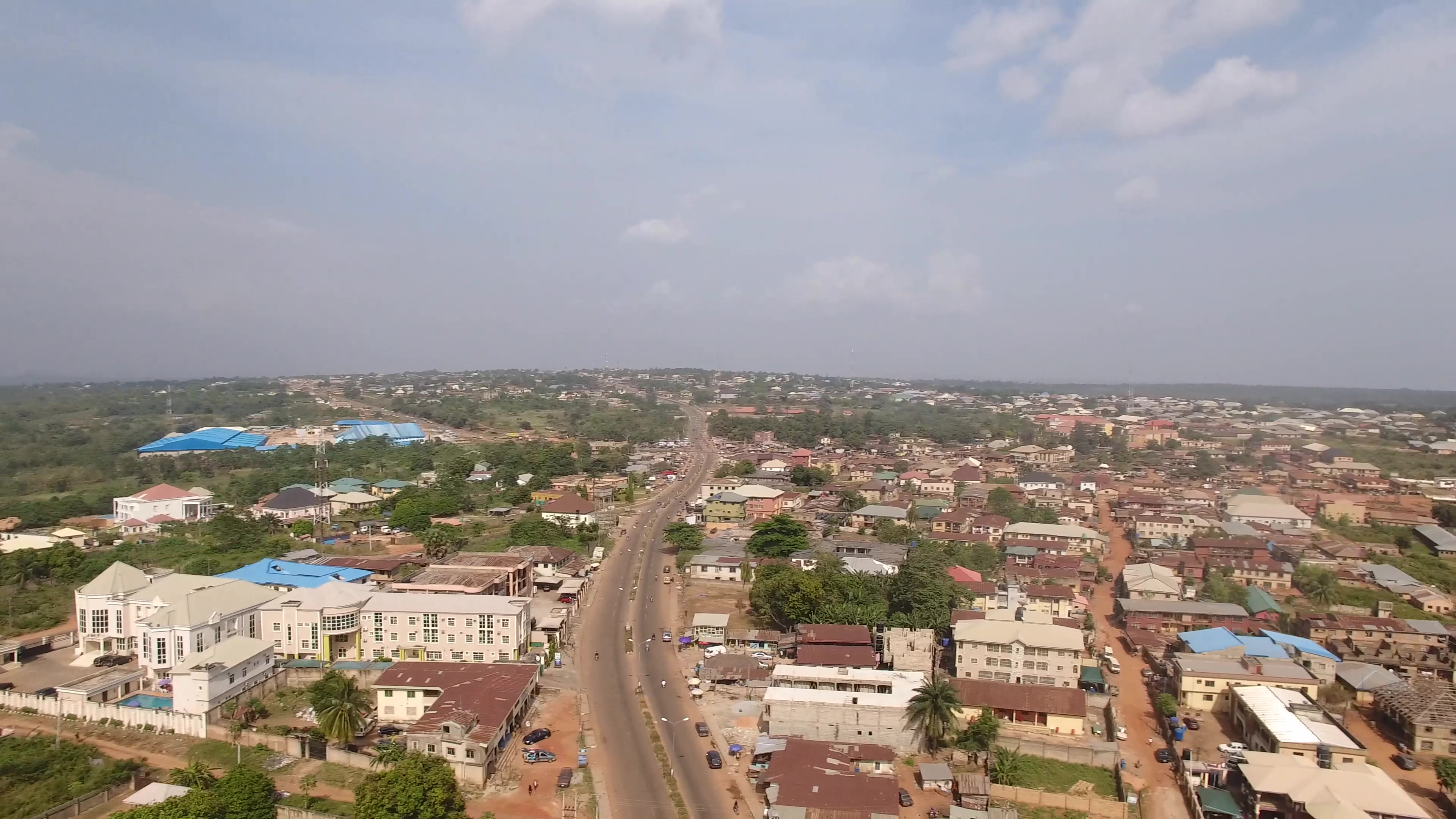 Aerial shot of Auchi in the direction of Jattu